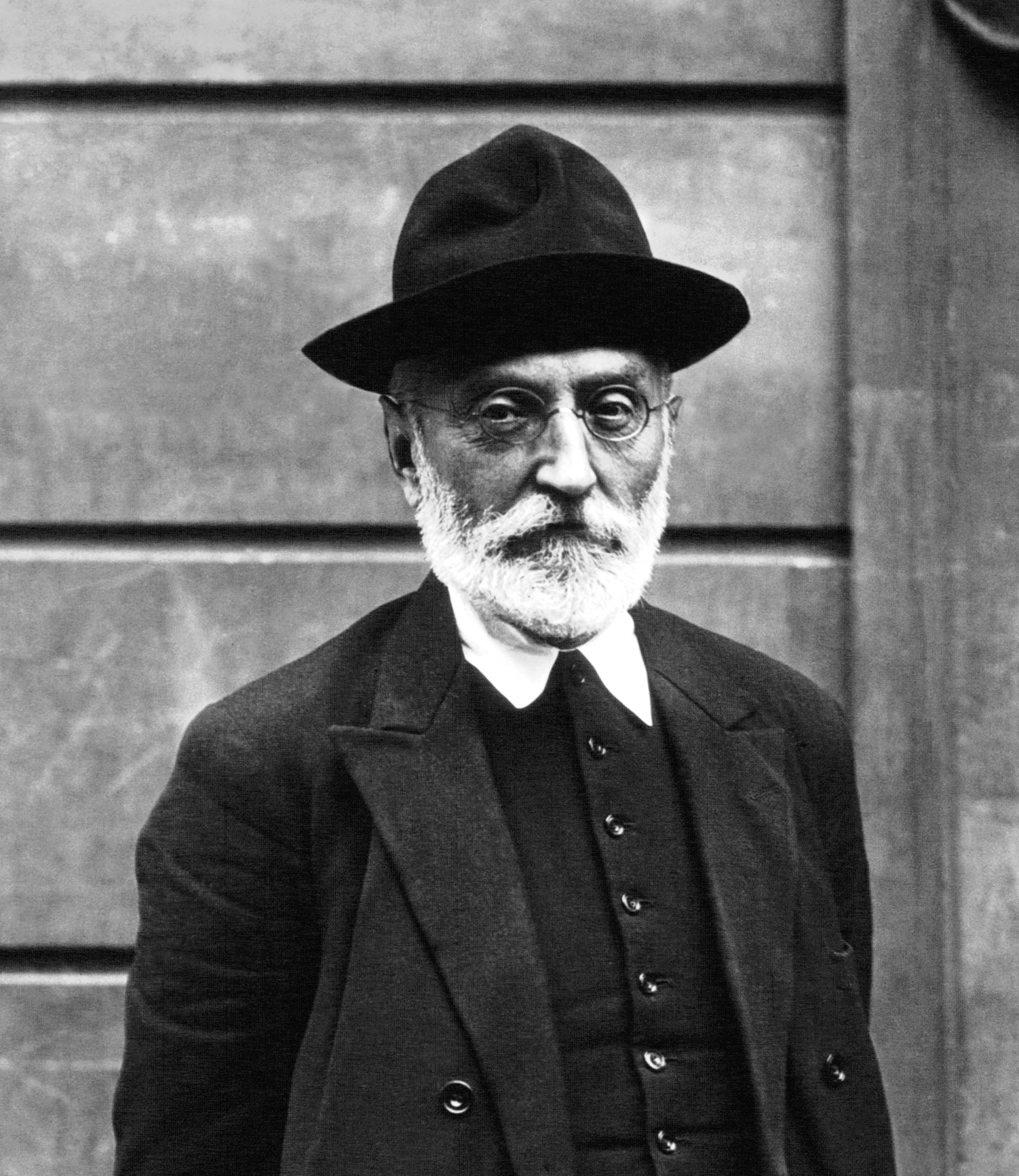 Miguel de Unamuno, Spanish essayist, novelist, poet, playwright and philosopher, in 1925.(Cropped print_2.)